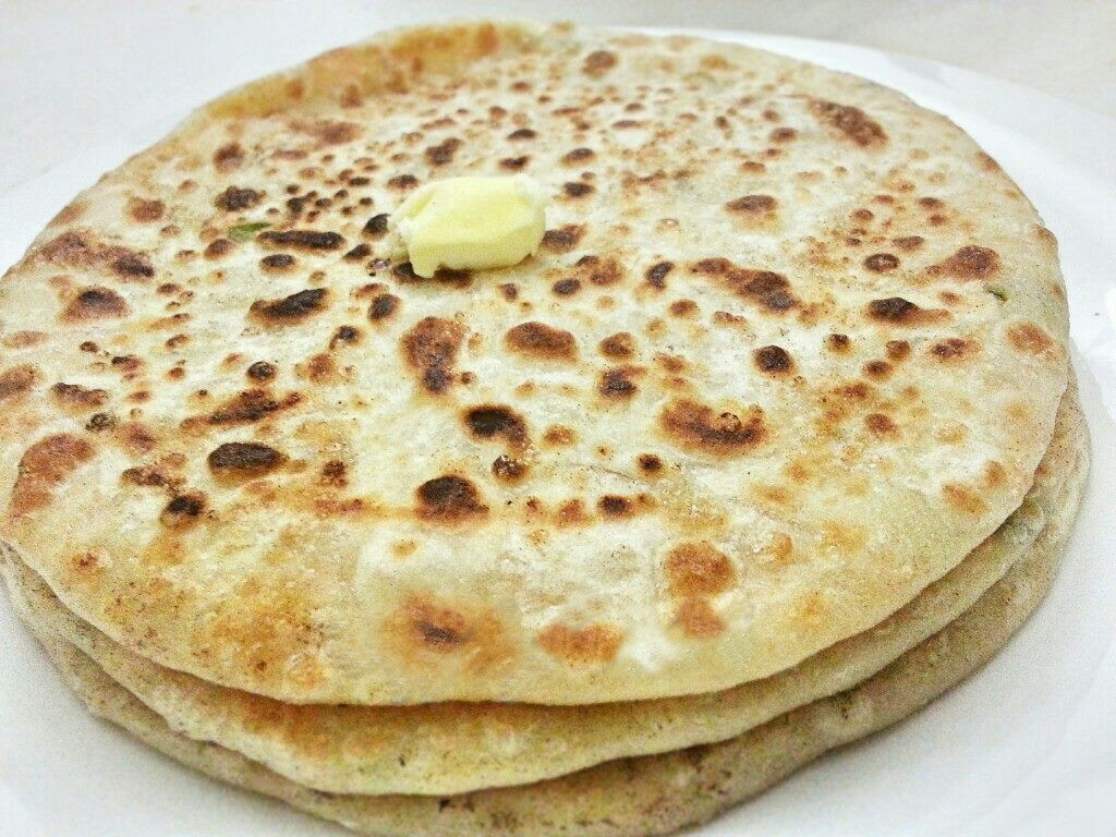 A famous North Indian breakfast dish, with boiled potato and spices stuffed in rotis.